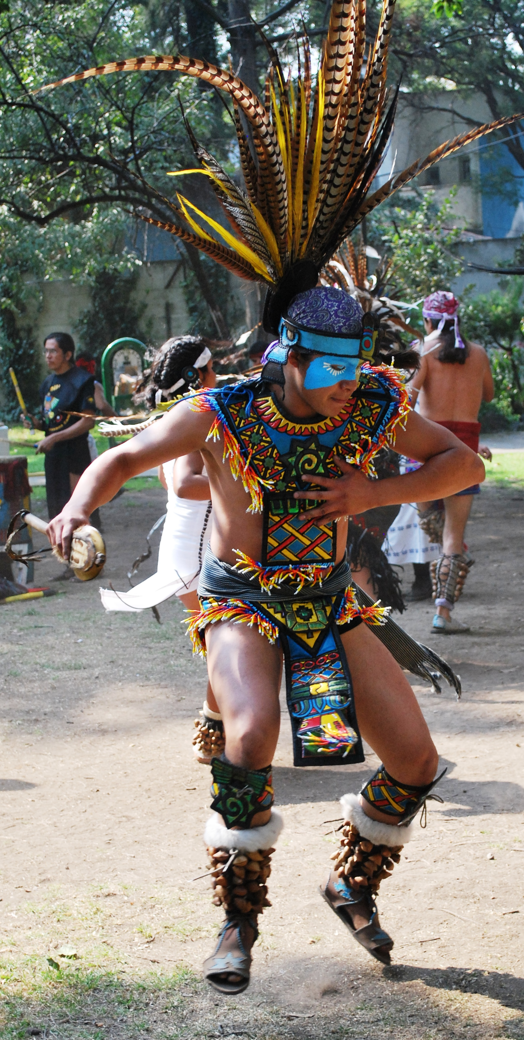 Aztec dance/ritual at Juana de Asbaje Park in Tlalpan, Mexico City